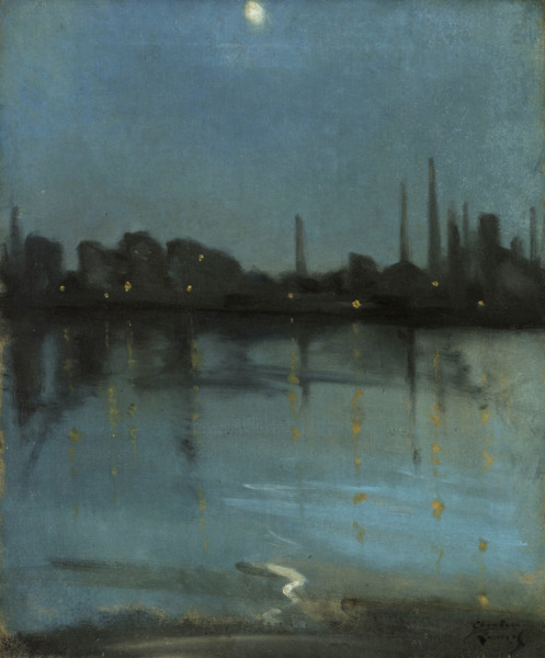 The Thames from Chelsea